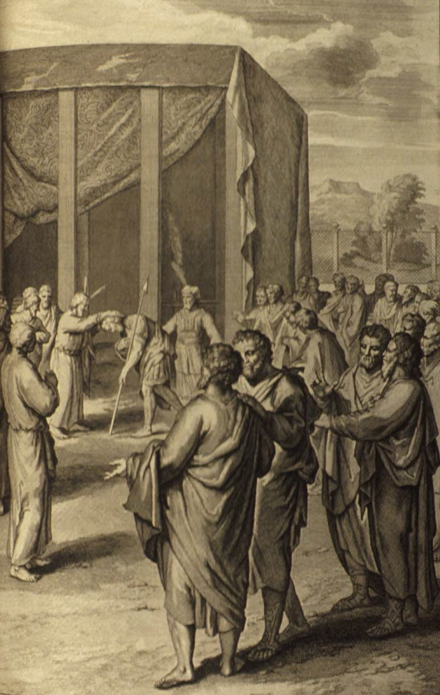 Moses Names Joshua To Succeed Him, as in Deuteronomy 31:1416, 21-23; illustration from the 1728 Figures de la Bible; illustrated by Gerard Hoet (1648-1733) and others, and published by P. de Hondt in The Hague; image courtesy Bizzell Bible Collection, University of Oklahoma Libraries